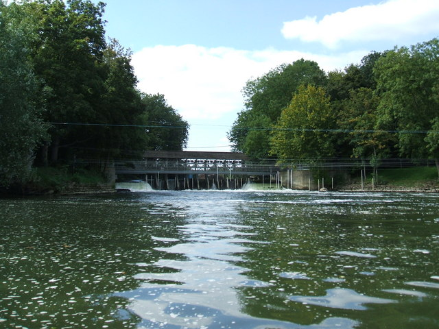 This is one of two. Between each weir is long and wholly divided into residential house plots Hamhaugh Island, Shepperton.